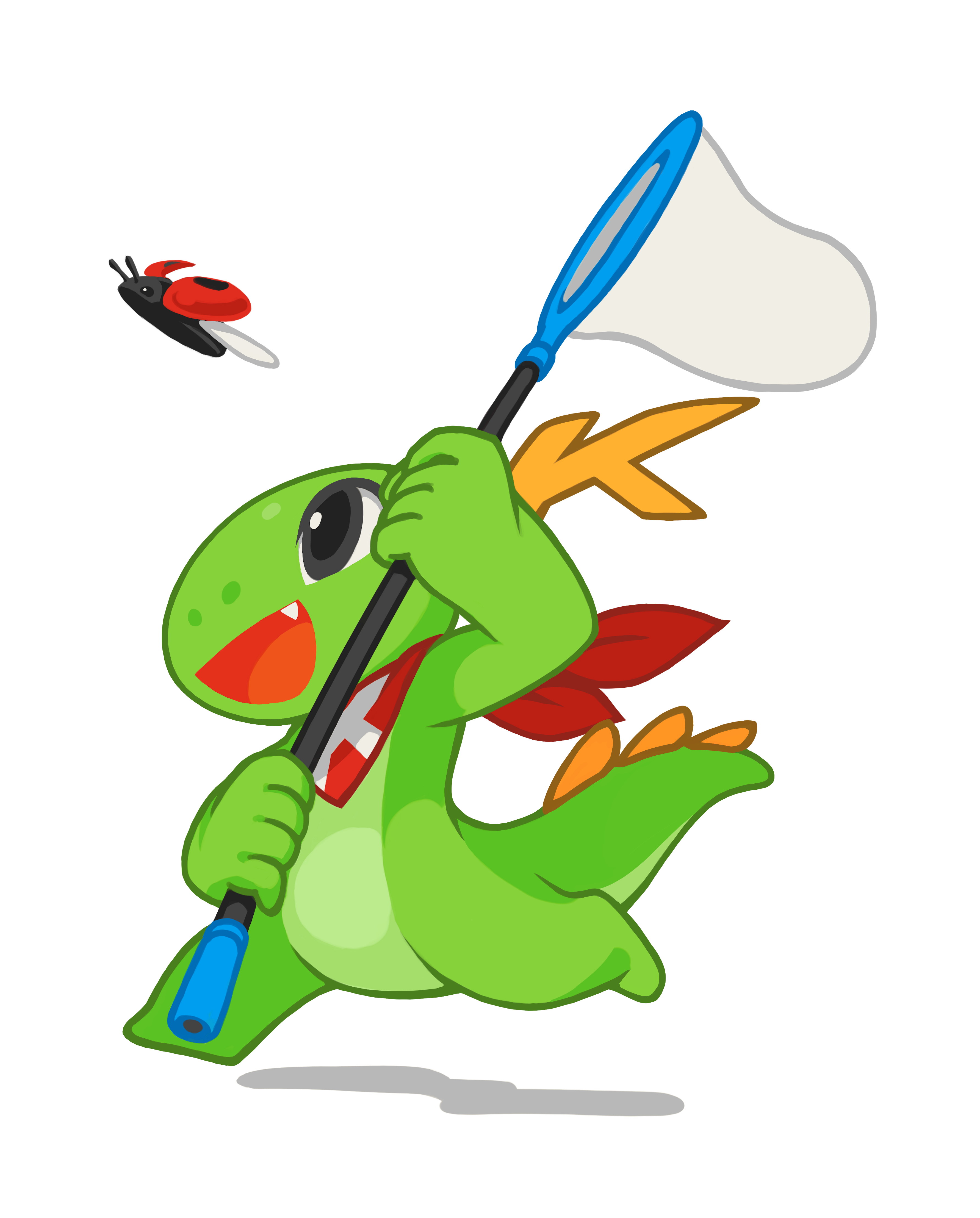 KDE mascot Konqi for bug reports.